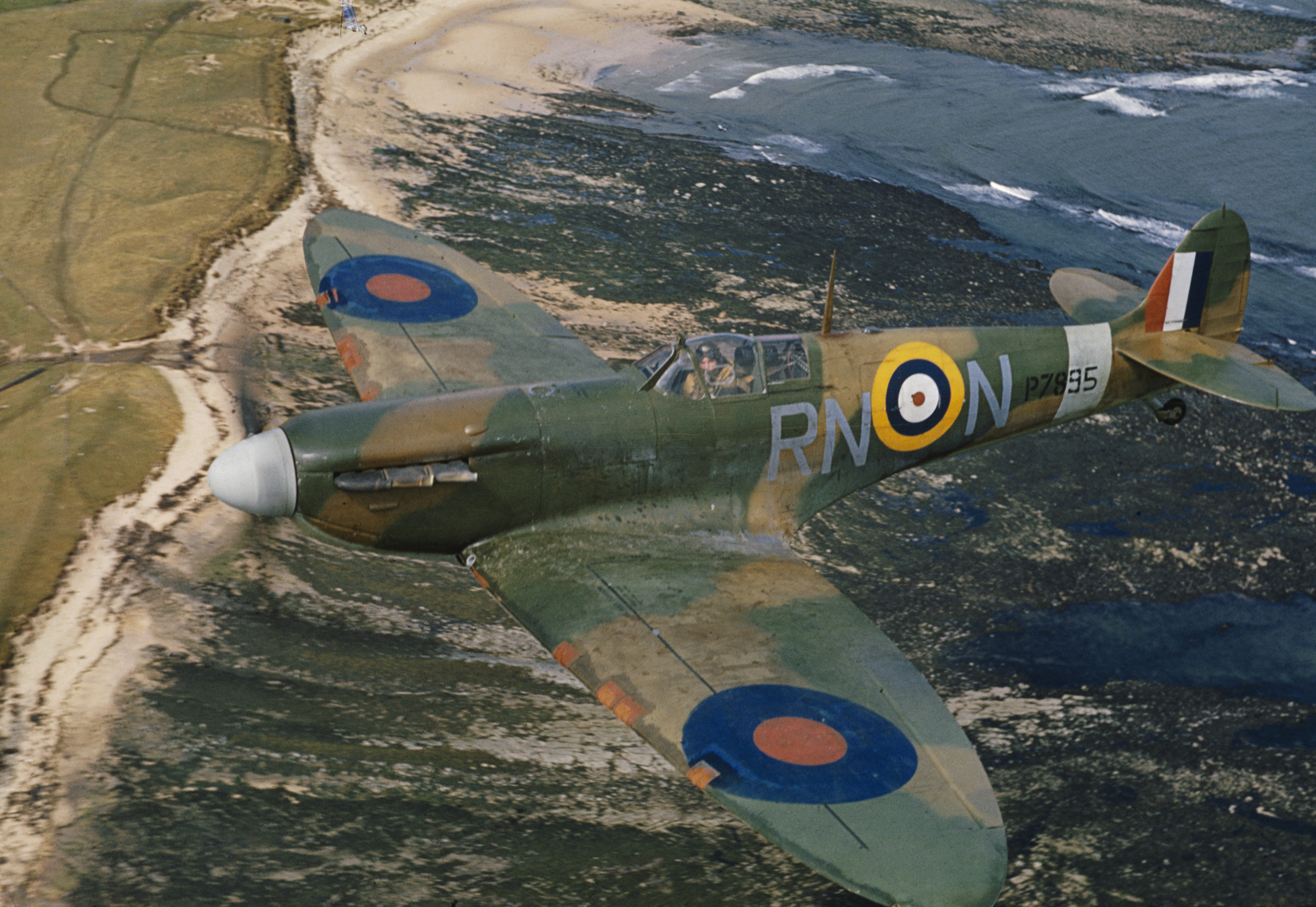 The Royal Air Force in Britain, April 1941 Supermarine Spitfire Mark IIA, P7895 'RN-N', of No 72 Squadron, Royal Air Force based at Acklington, Northumberland, in flight over the coast, piloted by Flight Lieutenant R Deacon Elliot.